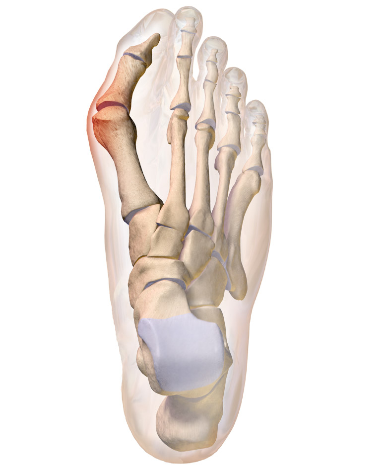 Bunion. See a full animation of this medical topic.